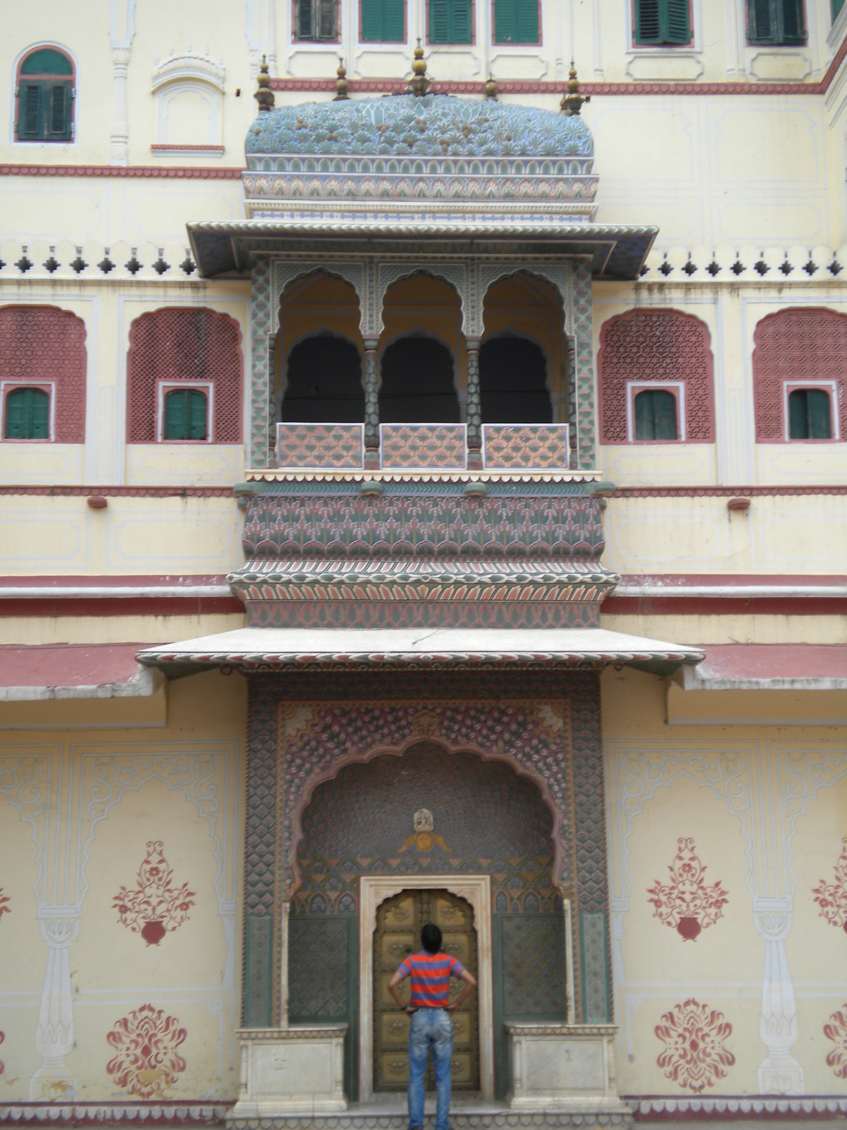 The Rose Gate, one of the four gates at Pitam Niwas Chowk of City Palace, Jaipur. The four gates in this courtyard represent four seasons. This gate (Rose Gate) represents Winter. ജയ്പൂർ സിറ്റി പാലസിലെ പീതം നിവാസ് ചൗക്കിലെ നാലു കവാടങ്ങളിലൊന്നായ റോസ് ഗേറ്റ്. ഇവിടത്തെ നാലു വാതിലുകൾ നാല്‌ ഋതുക്കളെ പ്രതിനിധീകരിക്കുന്നു. തണുപ്പുകാലത്തെയാണ് റോസ് ഗേറ്റ് പ്രതിനിധീകരിക്കുന്നത്.